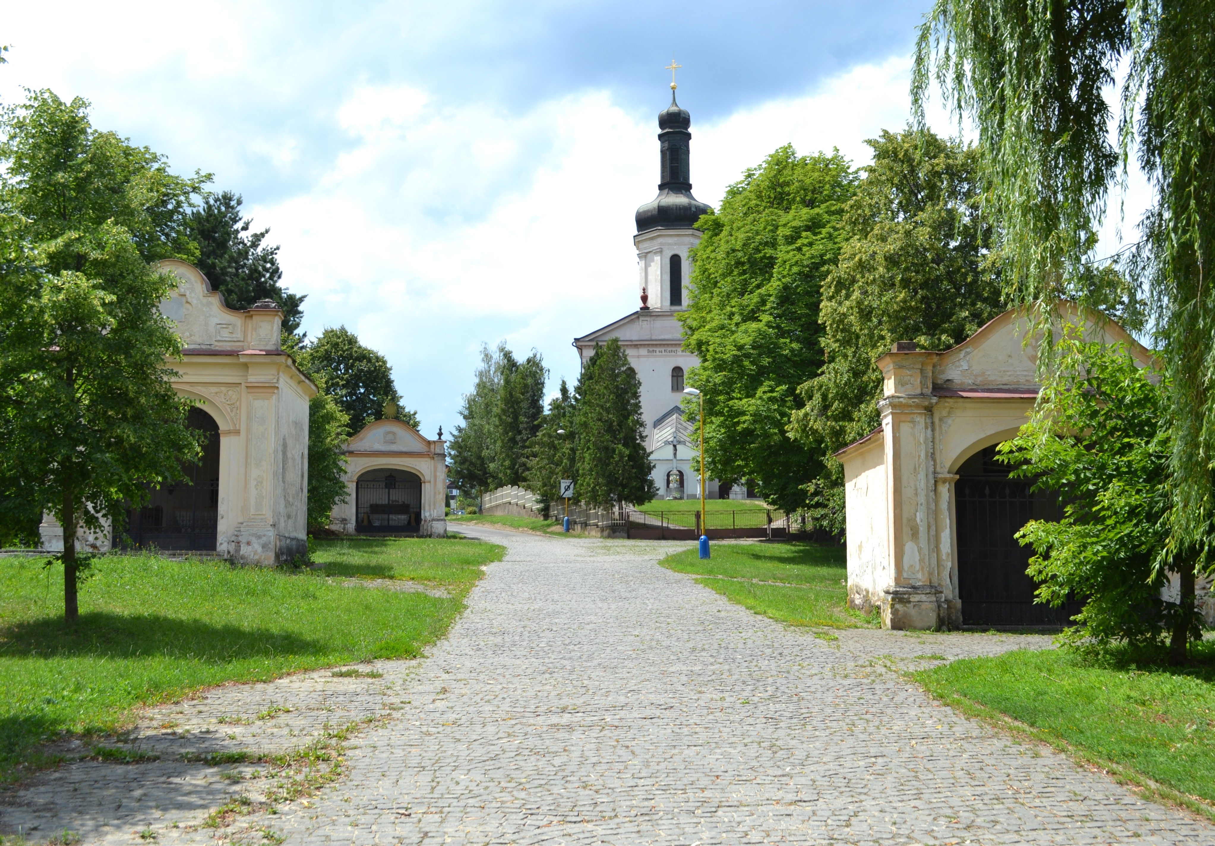 Kalvária v Košiciach